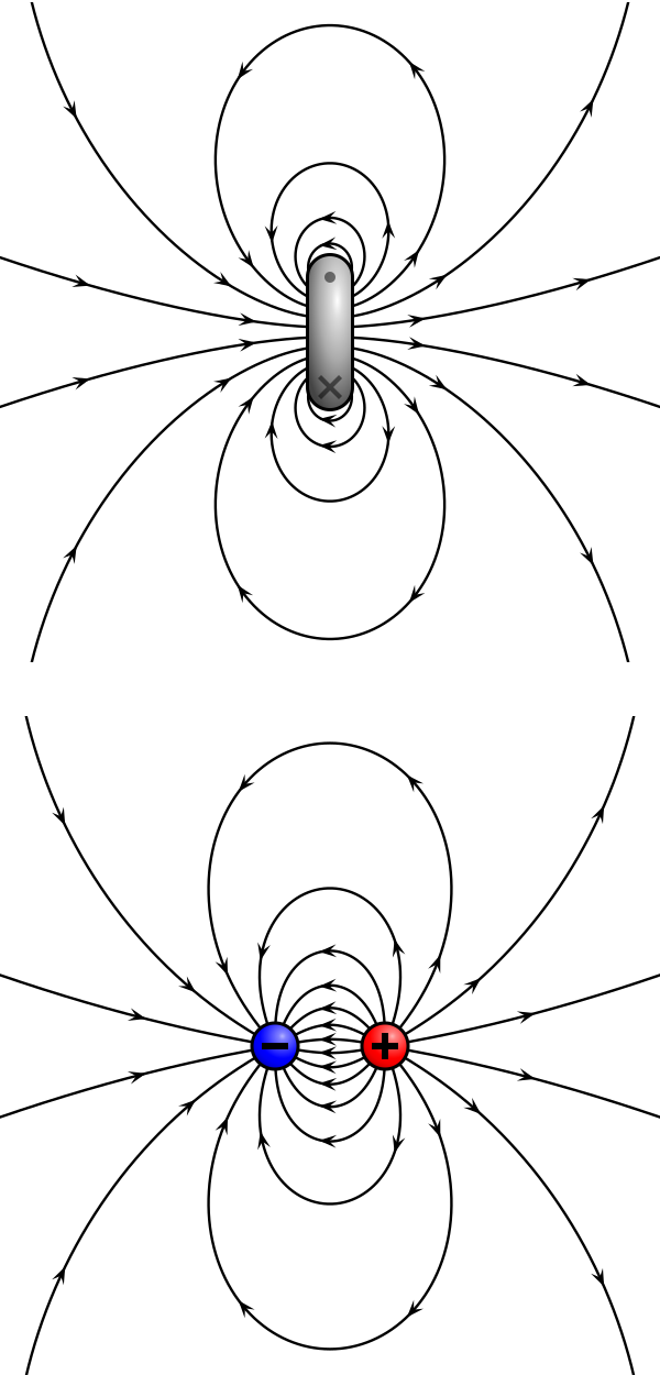 The image illustrates two possible ways a magnetic dipole can be created. The top panel is by a current loop, the lower panel is by two magnetic monopoles.